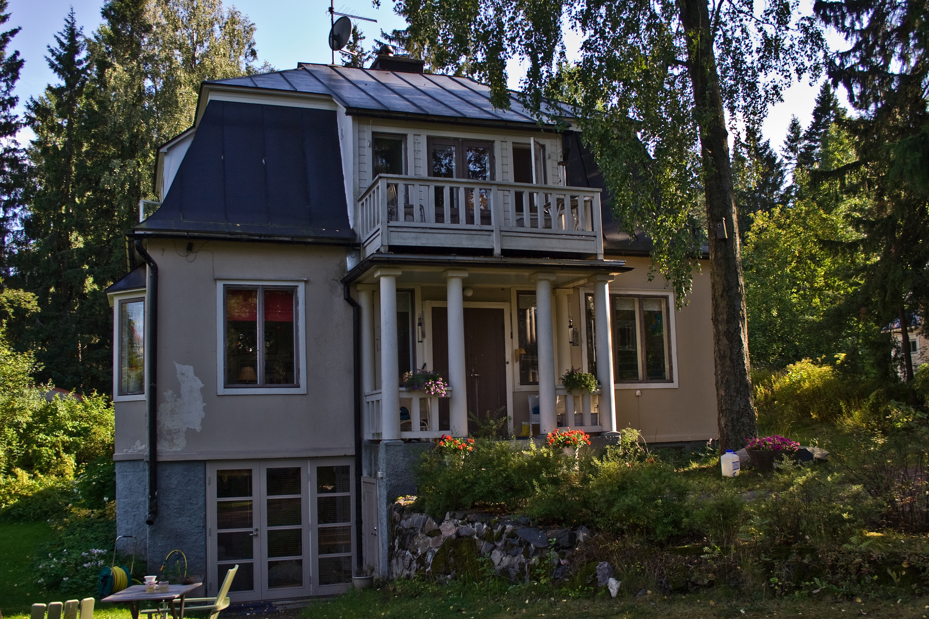 A old house from 1931